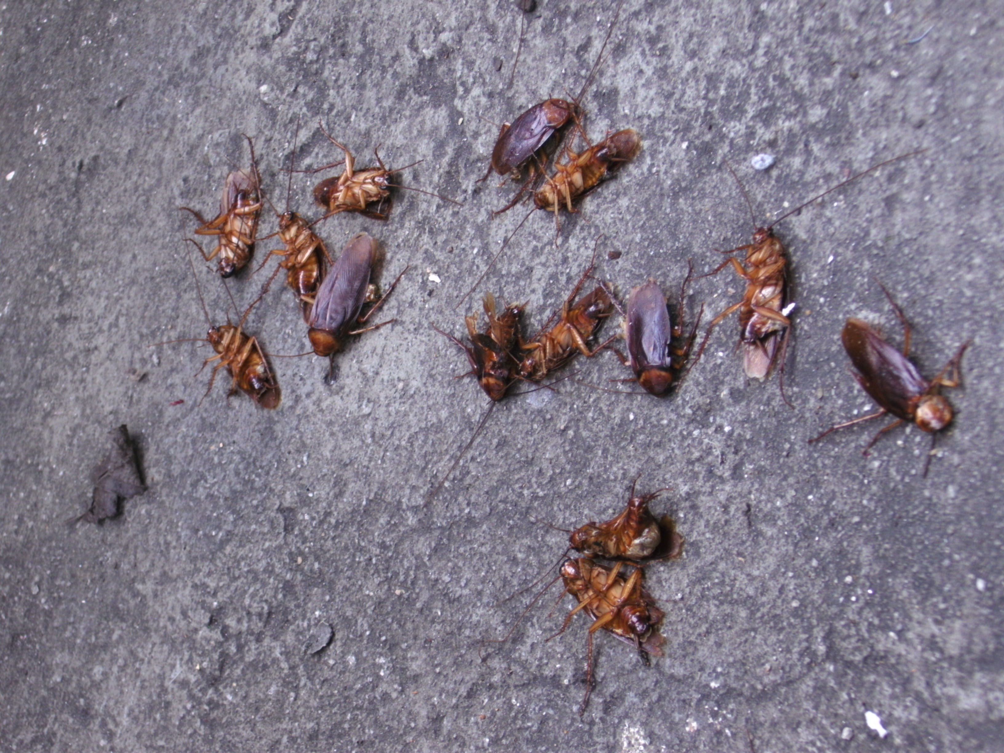 Cockroaches